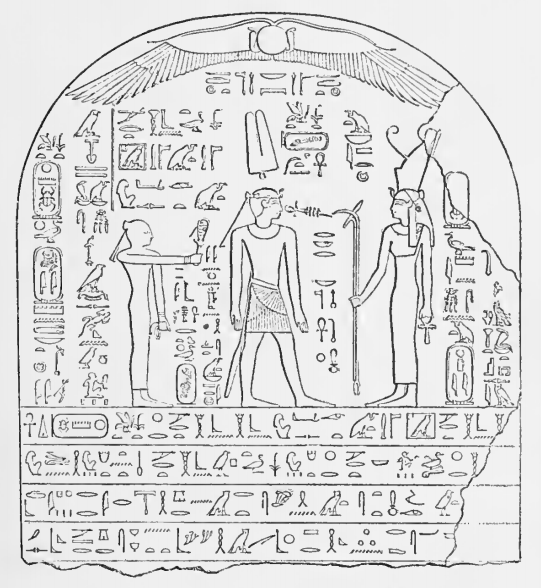 Drawing of the so-called poetic stele (Louvre C100), depicting very likely the theban ruler Menkheperre Ini. Original work at Louvre Museum, Third intermediate period. [ref: Jean Yoyotte, "Pharaon Iny, un Roi mystèrieux du VIIIe siècle avant J.-C.", CRIPEL 11(1989), pp.113-131